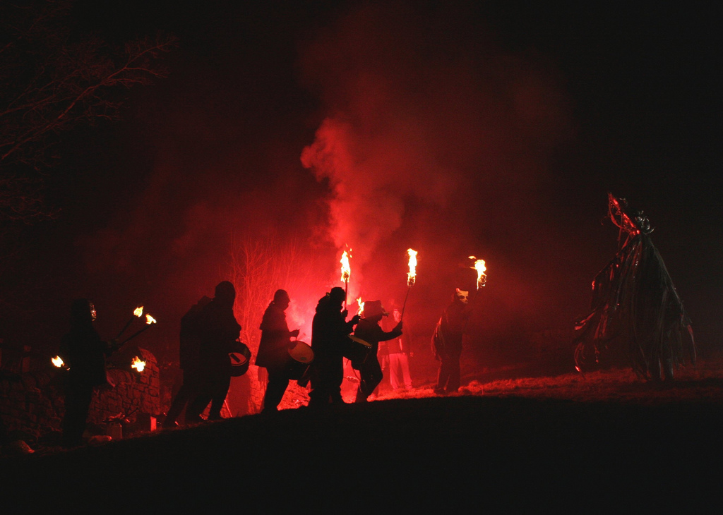 Torchbearers and drummers in front of red smoke, facing a giant Jack Frost. Imbolc Fire Festival Marsden Huddersfield 2006 Eos 350D